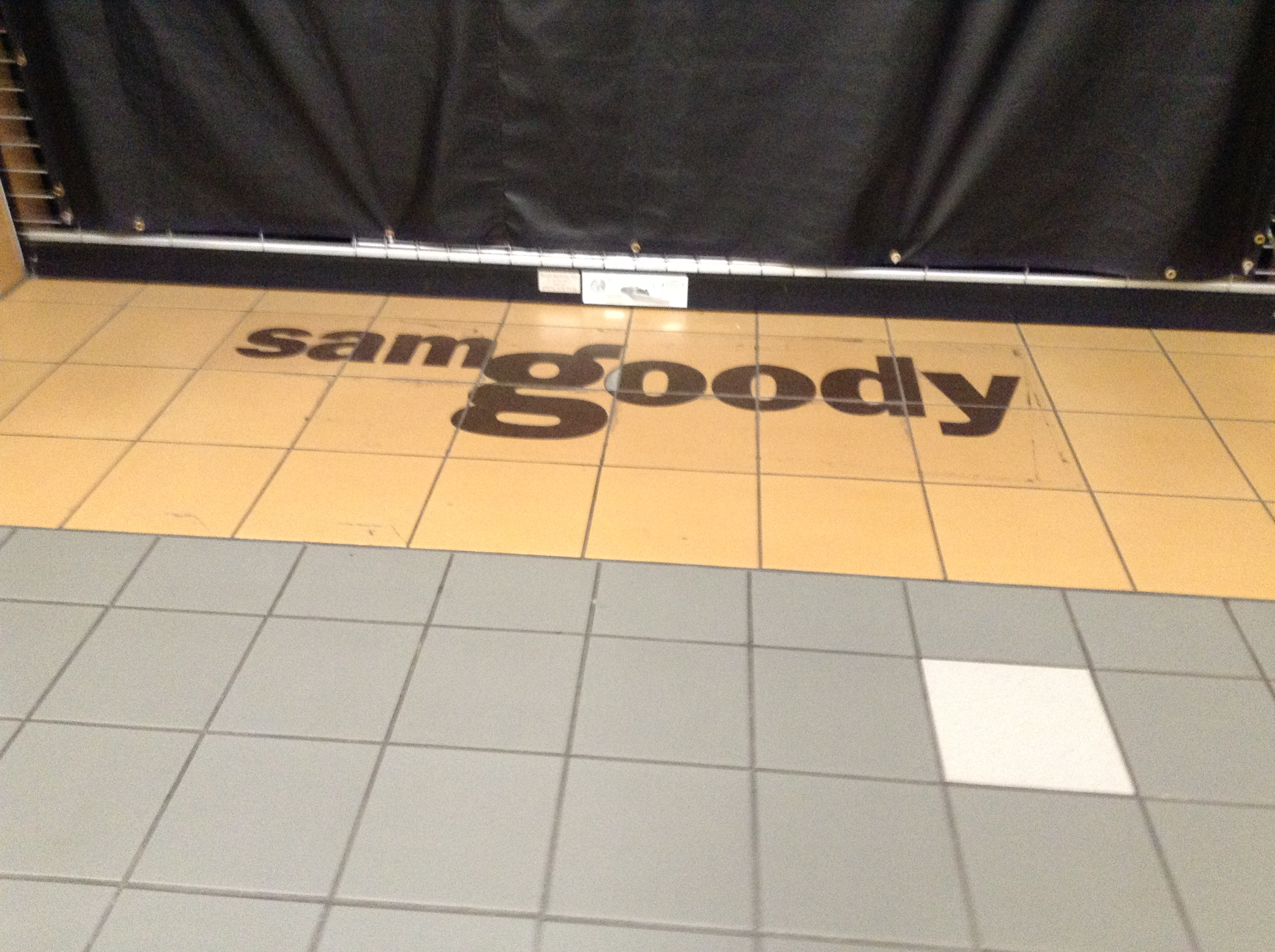 The Sam Goody logo in front of a vacant store in the Moorestown Mall